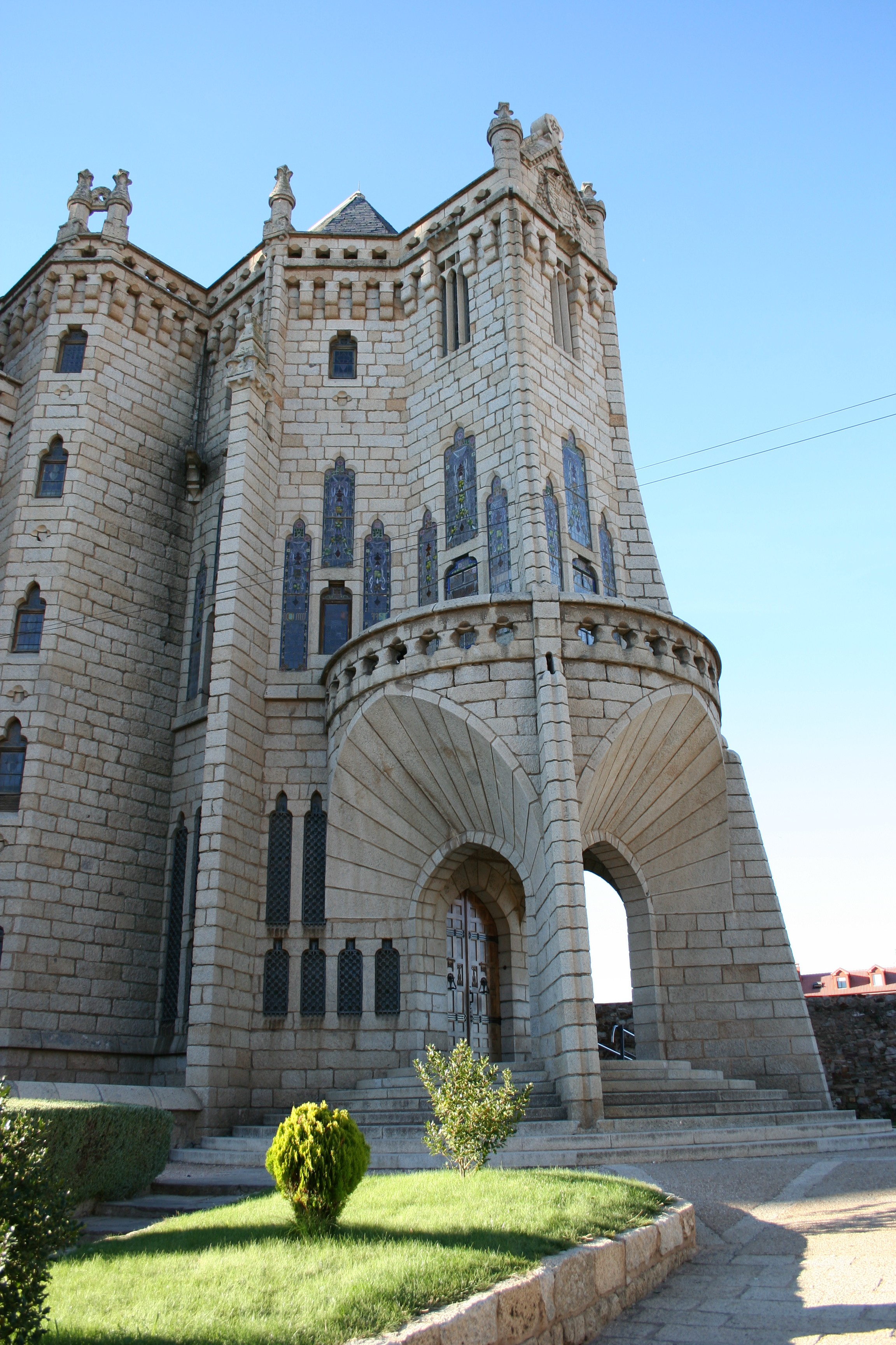 Puerta principal Palacio Episcopal de Astorga Native namePalacio Episcopal de AstorgaLocationAstorga, provincia de León, (Spain)Coordinates42° 27′ 28.08″ N, 6° 03′ 21.6″ W Established1889Web page control : Q507390 VIAF: 316732693 LCCN: sh93002330 BIC: RI-51-0003827 SUDOC: 033215227 BNF: 124104065 WorldCat institution QS:P195,Q507390